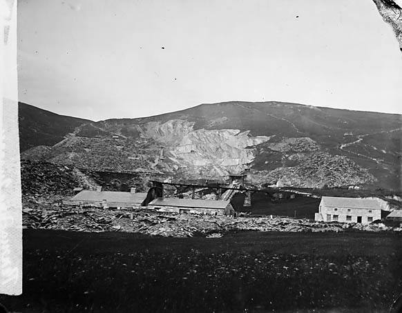 1 negative : glass, wet collodion, b&w ; 10 x 12.5 cm.